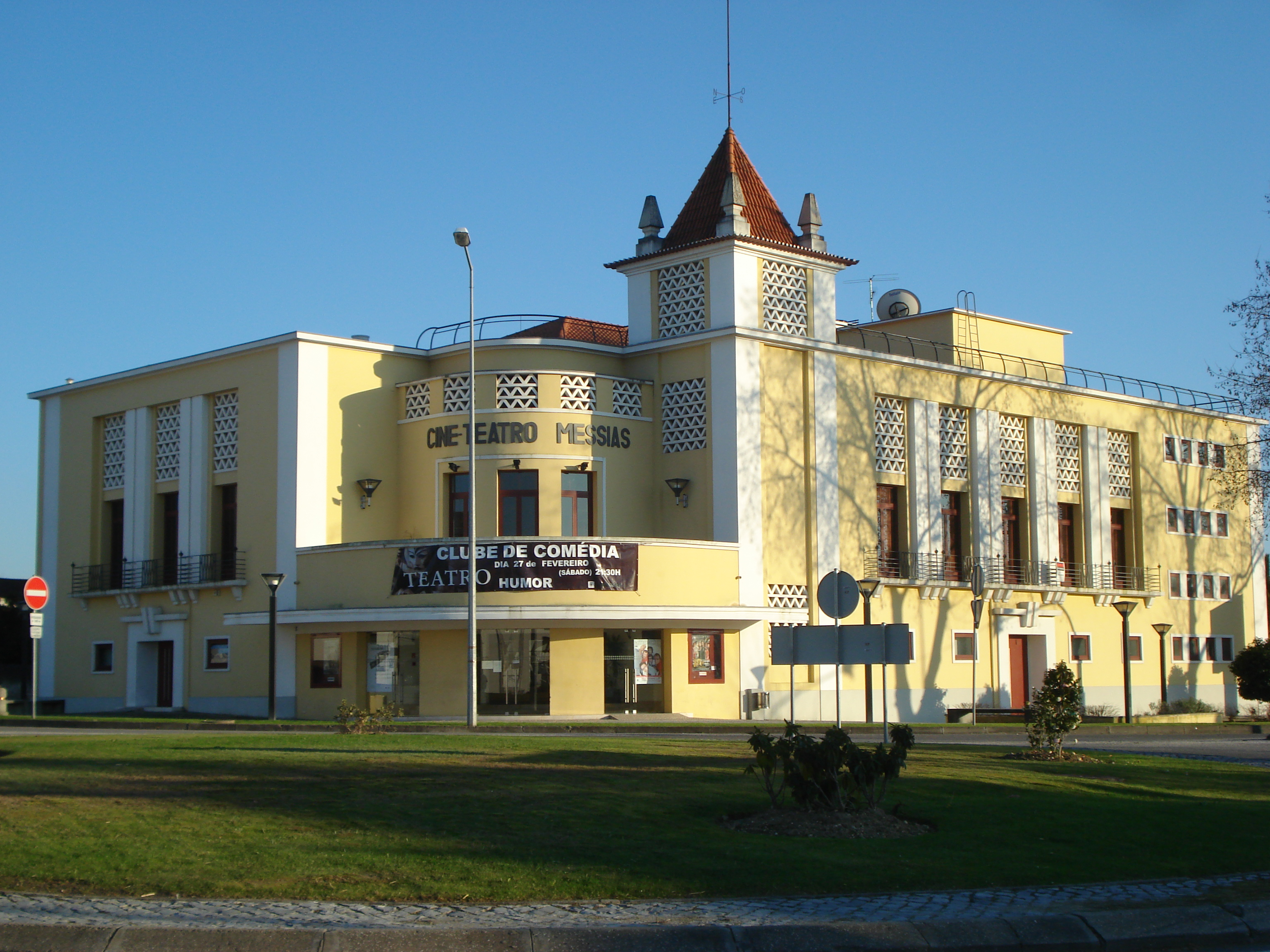 Messias Theatre